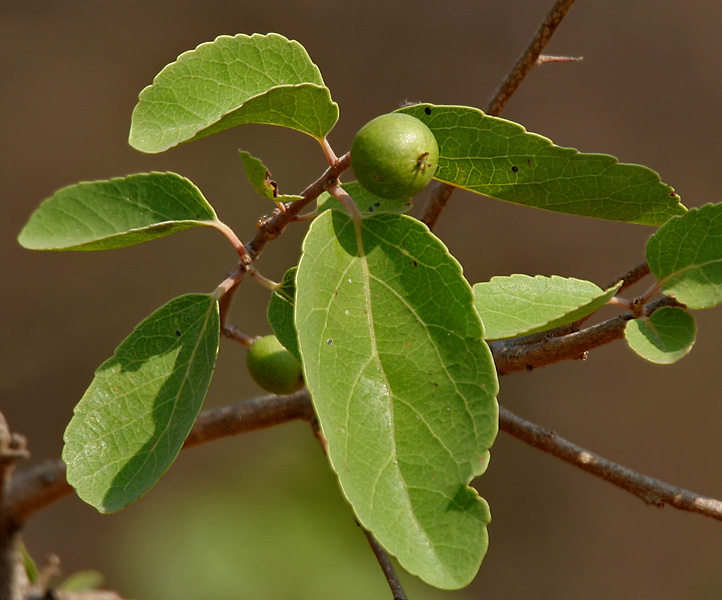 Flacourtia indica - Governor's Plum, Tambat, batoka plum, Madagascar plum, Mauritius plum, Rhodesia plum or athrun in Mahavir Harina Vanasthali National Park, Hyderabad, India.